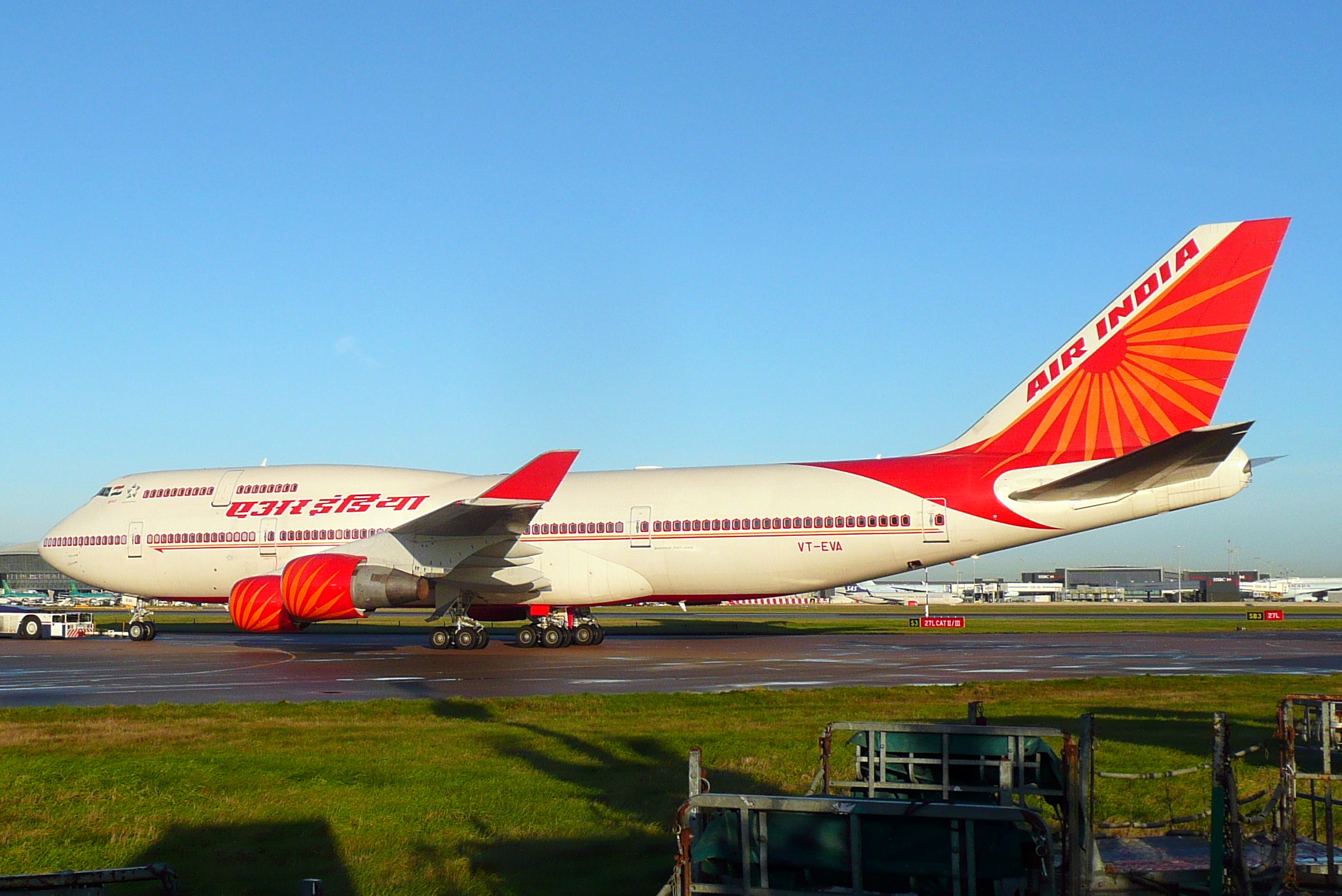 VT-EVA Boeing 747-400 Air India being repositioned prior to departure another old regular being used to supplement the airlines 787 fleet.